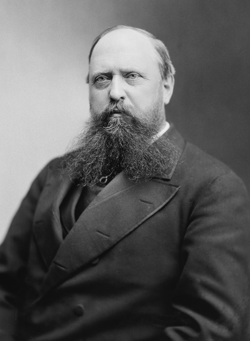 Othniel Charles Marsh. Library of Congress description: "Marsh, Prof. O.C. of Conn.".